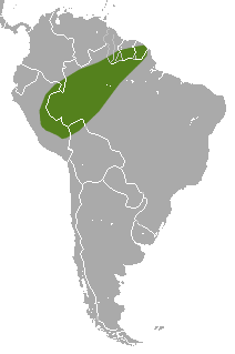 Kalinowski's Mouse Opossum (Hyladelphys kalinowskii) range